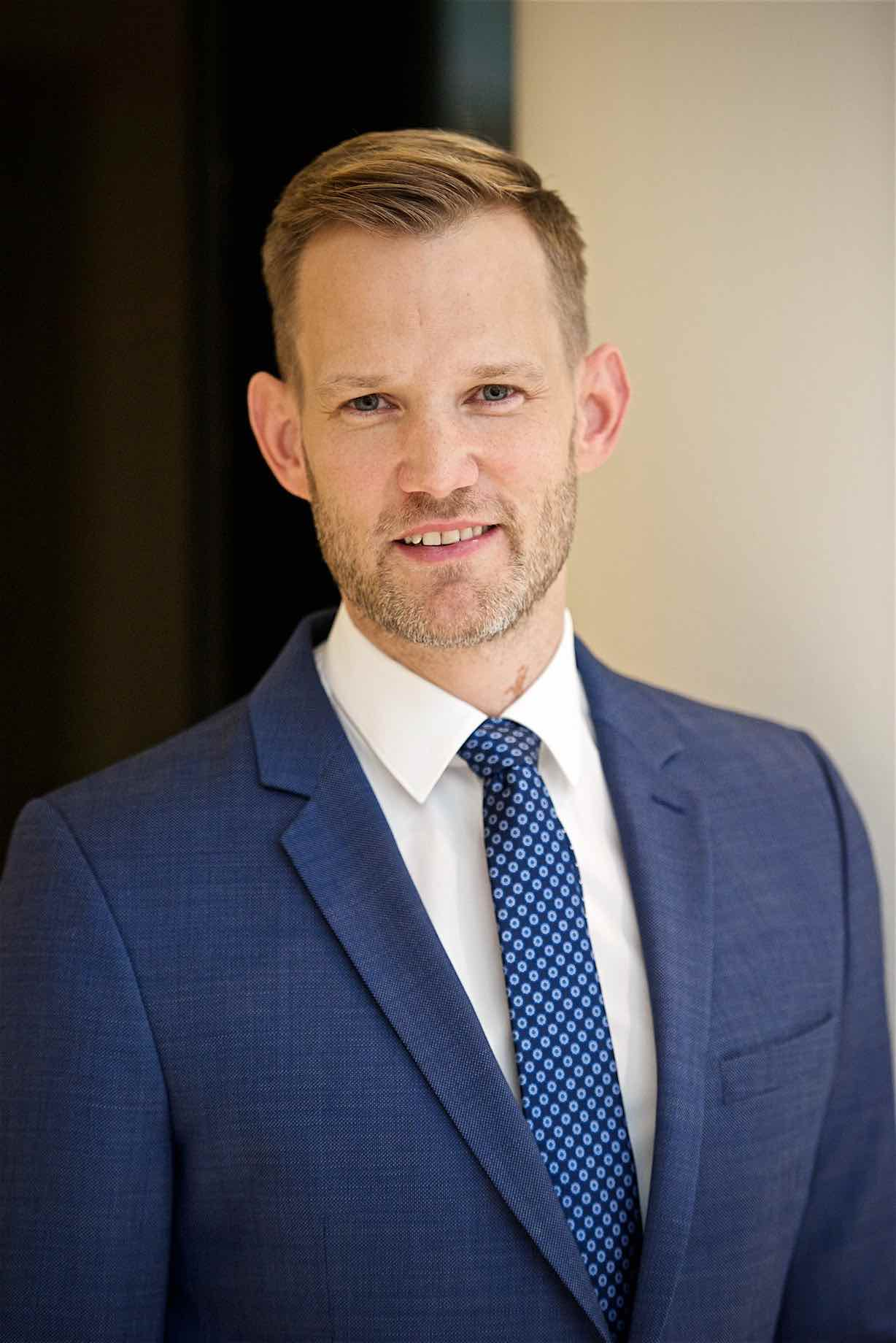 official photograph of Hendrik Streeck, Institute for HIV Research, Germany